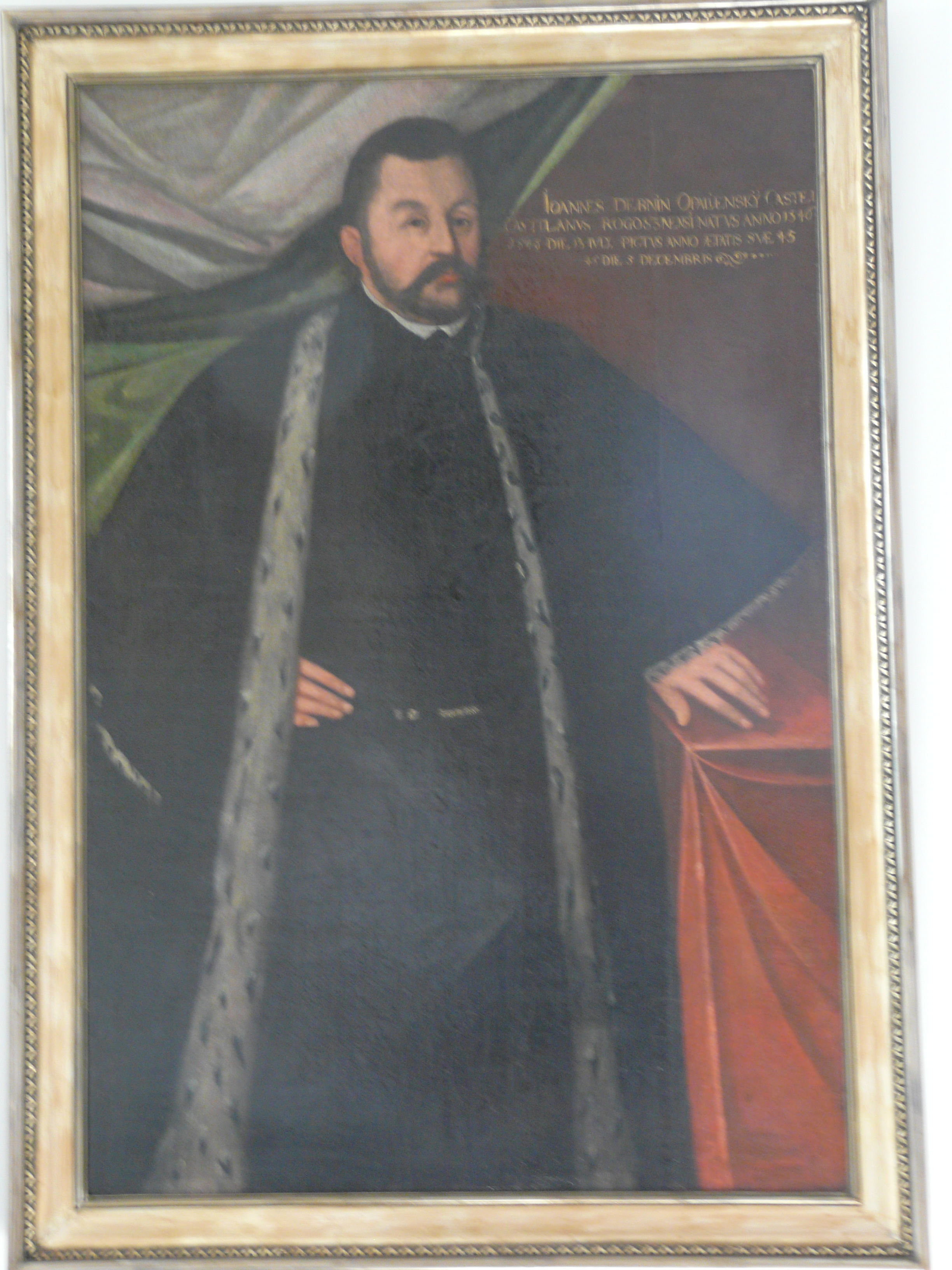 From the collection of the National Museum in Poznań. Jan Opaliński starszy (1546-1598) herbu Łodzia. Artist: unknown painter from Wielkpolska, c. 1591